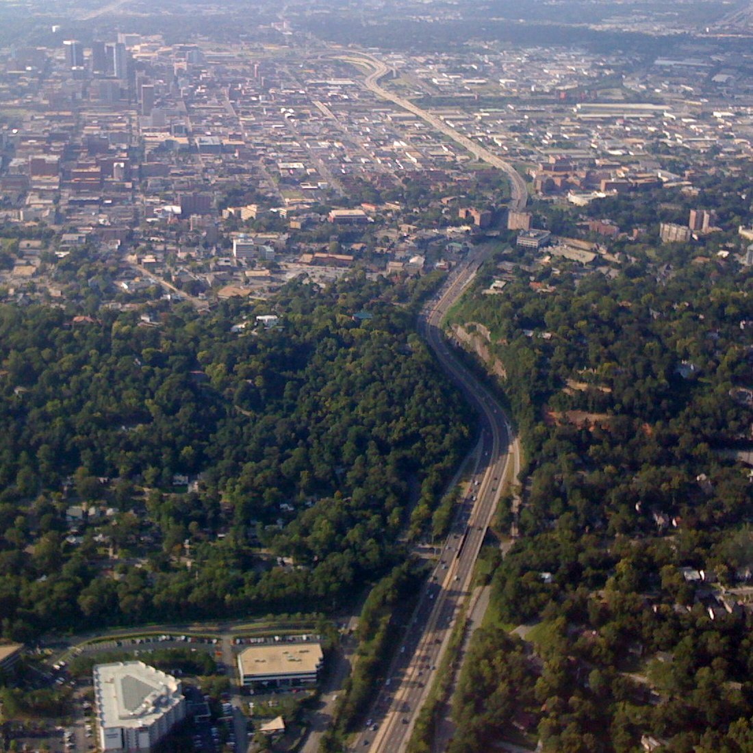 Red Mountain Cut